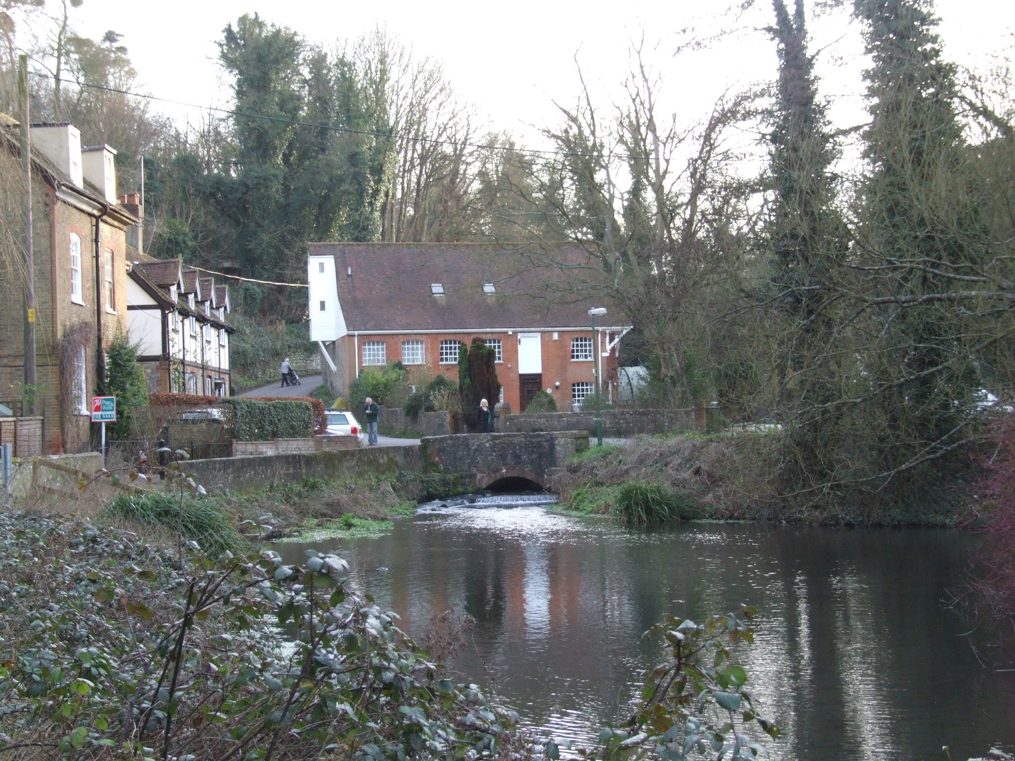 Tovil is 1km south west or upstream of the Archbishops palace, Maidstone in Kent. The Loose Stream flows through the parish before it is culverted and joins the River Medway. There are many springs in the area. . Upper Crisbrook Mill is now residential with Upper Crisbrook cottages to the left.